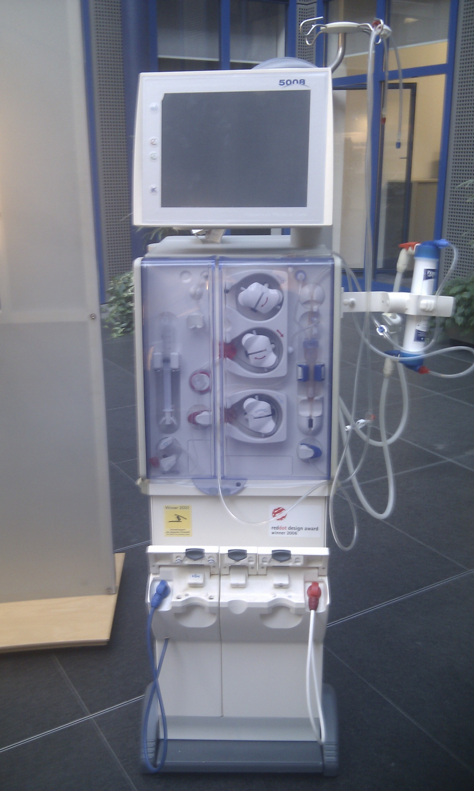 Dialysis Machine 5008 produced by Fresenius Medical Care.